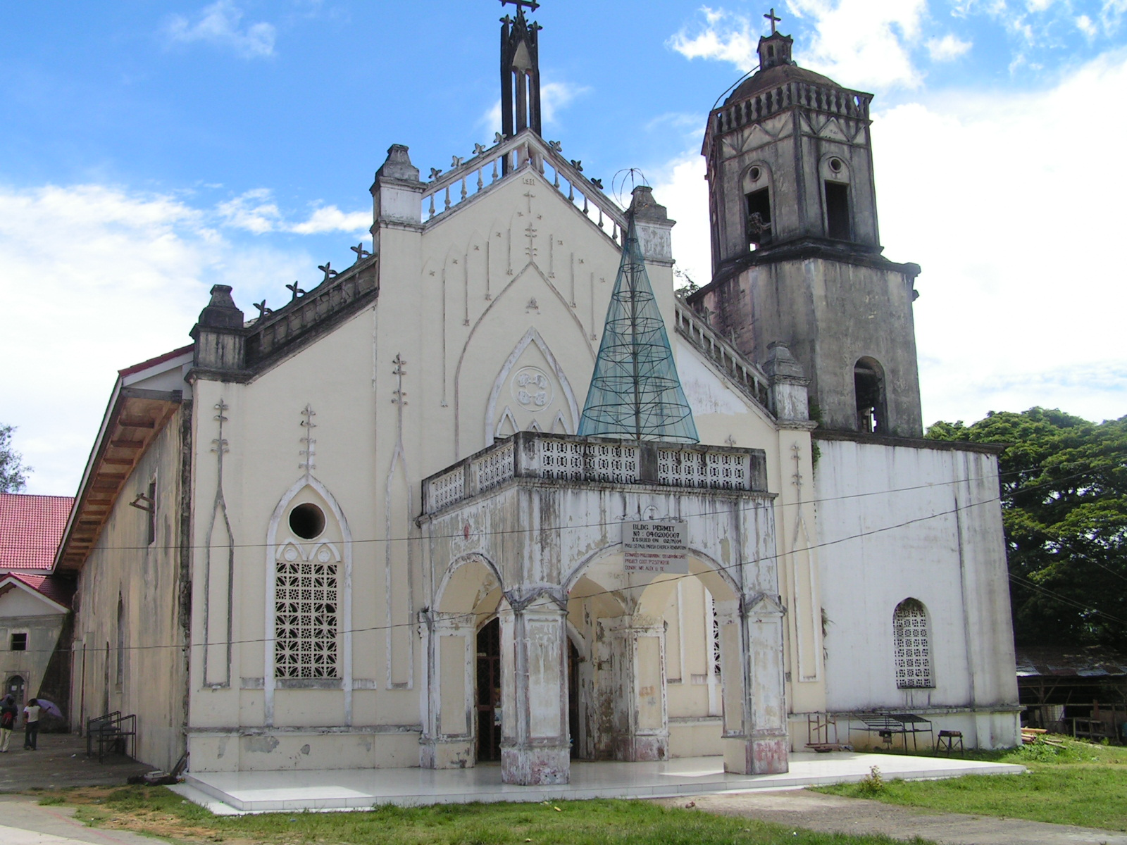 self-taken